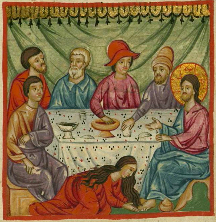 From a 1684 Arabic manuscript of the Gospels, copied in Egypt by Ilyas Basim Khuri Bazzi Rahib (likely a Coptic monk). In the collection of The Walters Art Museum, Baltimore, Md. (on page 51 of the .pdf copy of the document released by the museum under the Creative Commons Attribution-NonCommercial-ShareAlike 3.0 Unported license).